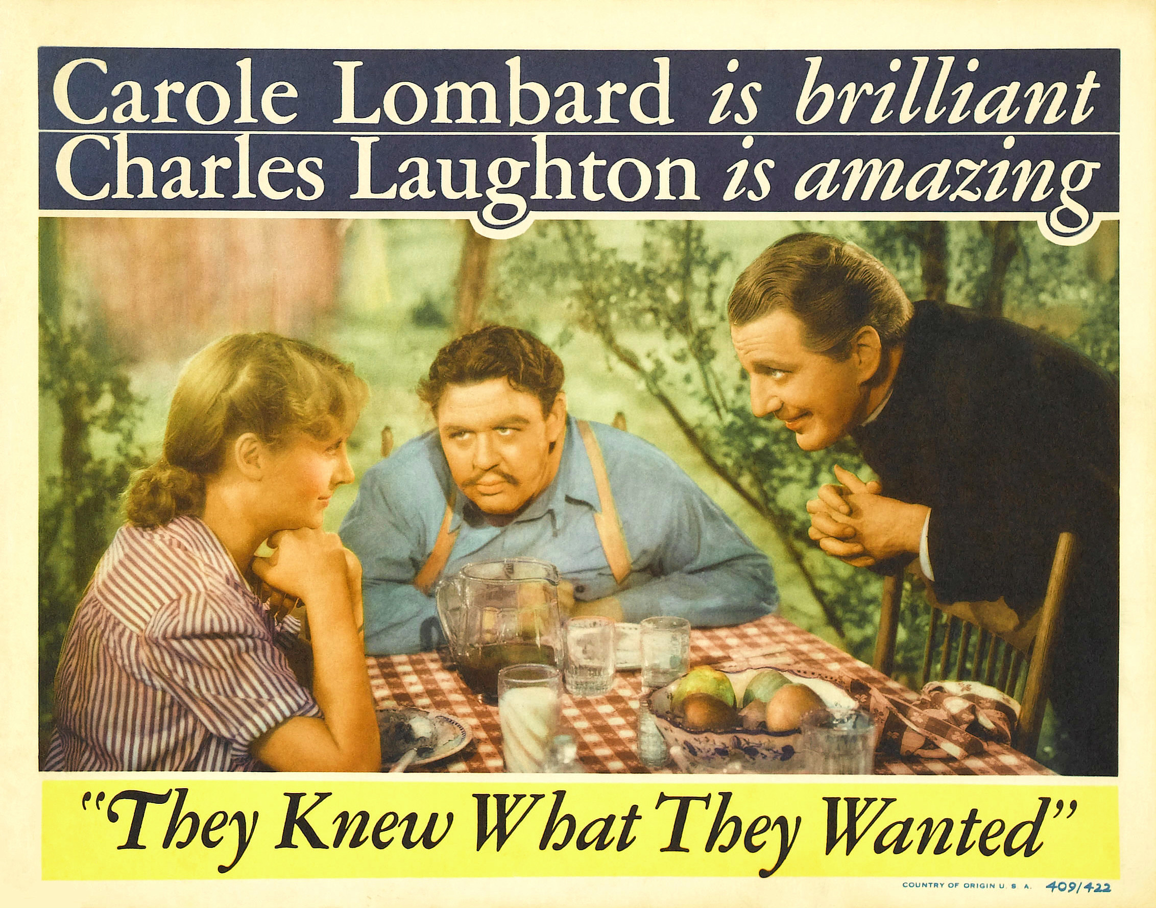 Lobby card for the 1940 film They Knew What They Wanted. Pictured are Charles Laughton, Carole Lombard and Frank Fay (the priest).